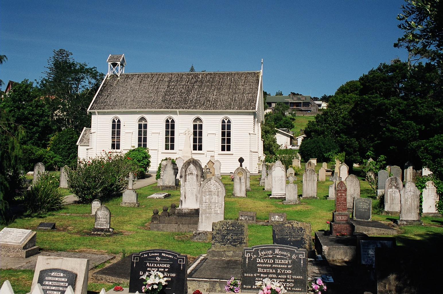 New Zealand's oldest church, "Christ Church" in Russell, January 2001